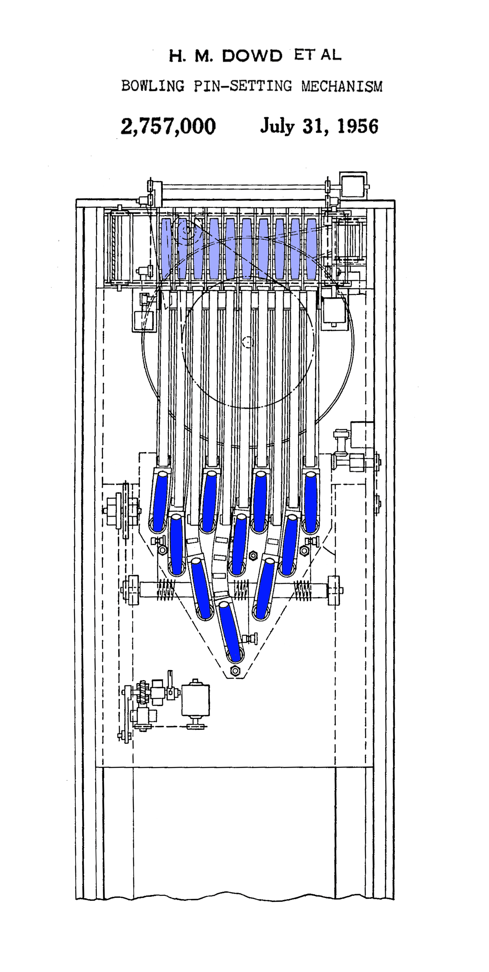 Assembled clippings from U. S. Patent 2,757,000, "Bowling pin-setting mechanism", including Figure 2, altered by uploader to highlight candlepins in blue.